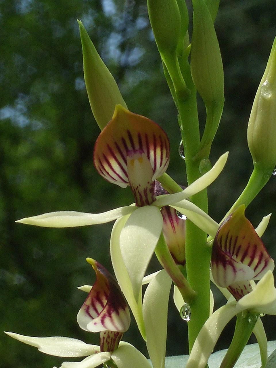 Prosthechea cochleata